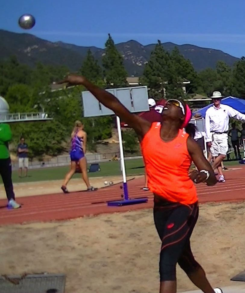 Sharon Day-Monroe throwing her personal record 15.06 shot put at the 2015 Sam Adams Multi-Event Meet at Westmont College in Montecito, California